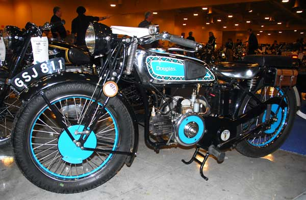 Photo © by Jeff Dean Attribution: Attribution Photo © by Jeff Dean